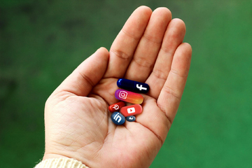 Social Media Addiction Image